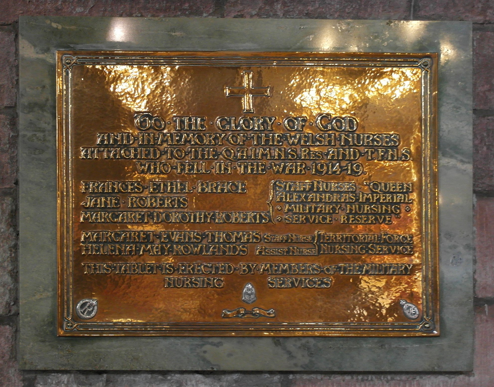 Brass memorial dedicated to military nurses that lost their lives in the Great War. It is situated in St Asaph Cathedral